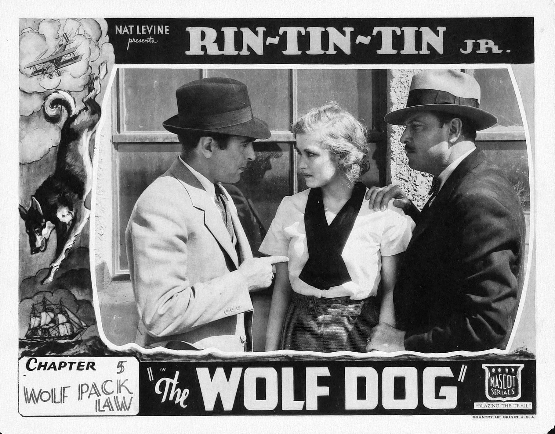 Lobby card for chapter 5 of the American film serial The Wolf Dog (1933).